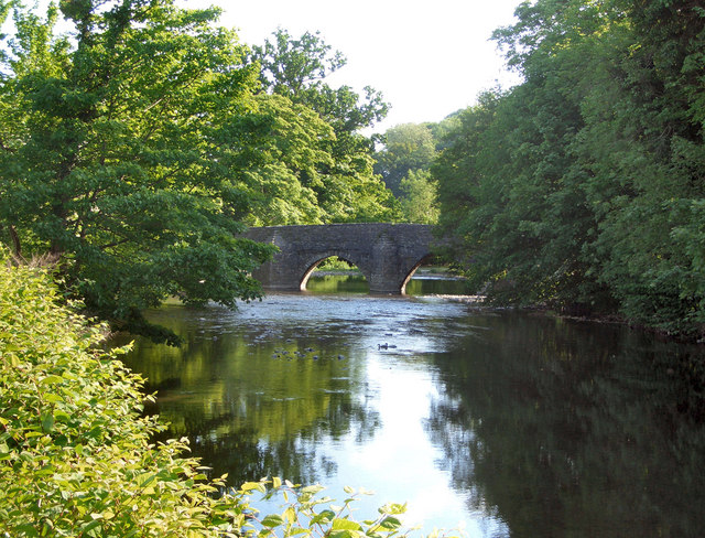 The Ogmore River by New Inn Bridge Southward view of the Ogmore River by New Inn Bridge. The river remains lined by woodland - if not always on both banks - for about 3 km southwards of this point; and is so for at least 0.5 km northwards of here.